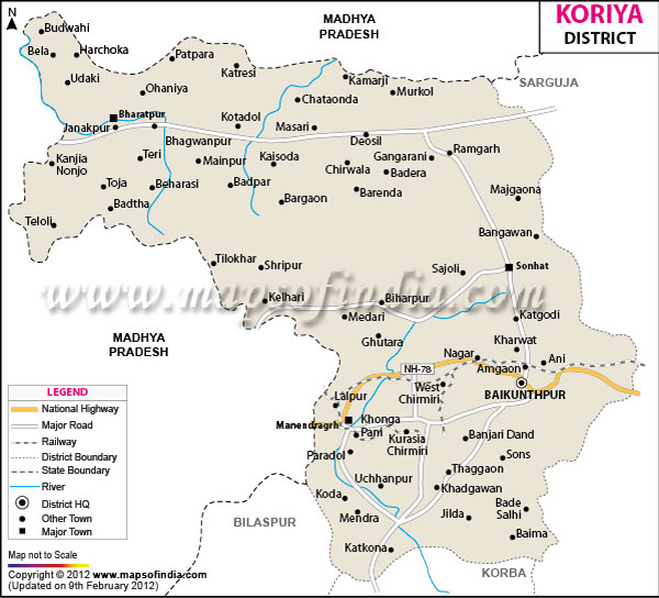 chirimiri